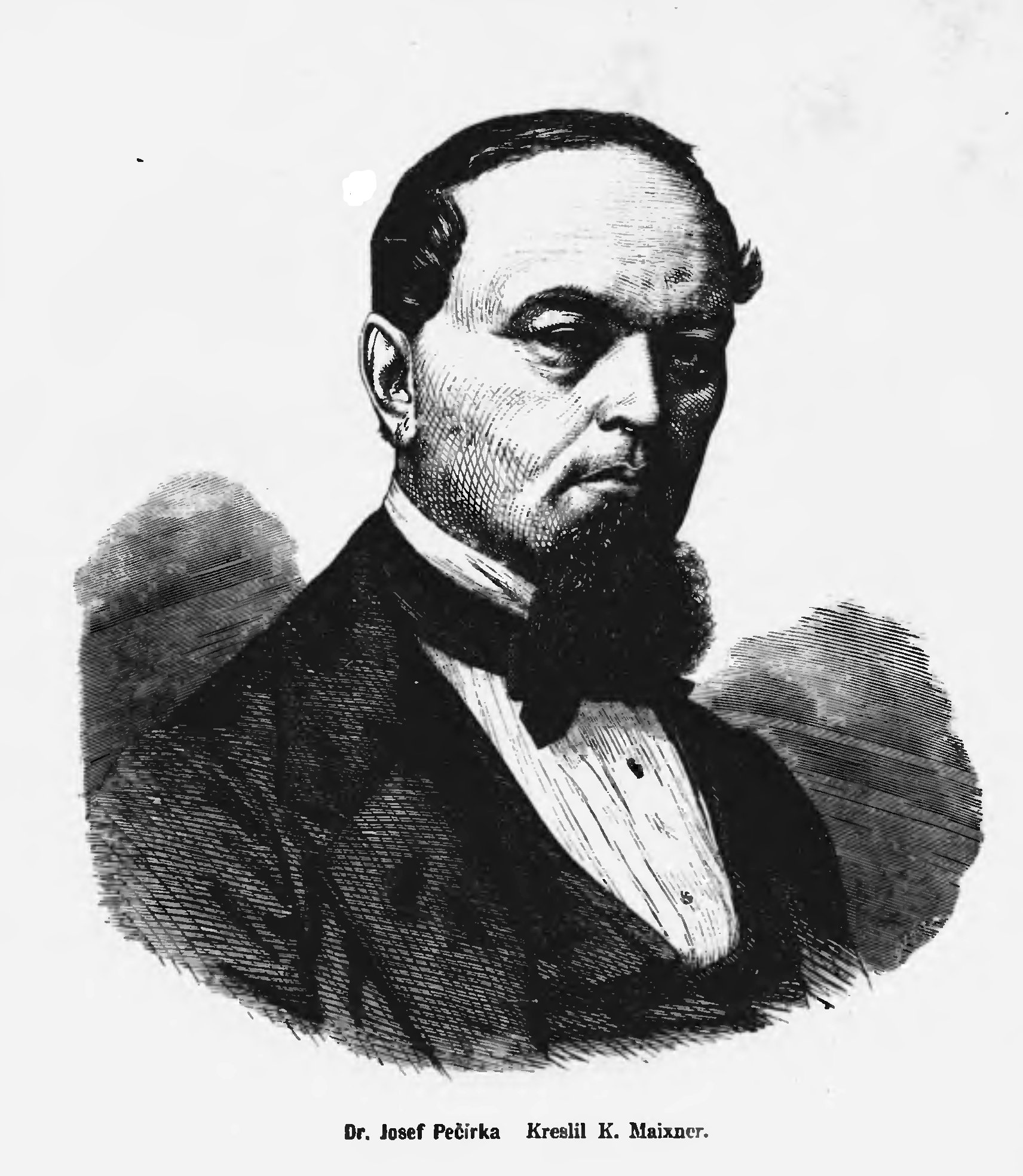 Portrait of Josef Pečírka (1818-1870), Czech physician, high school teacher and writer.